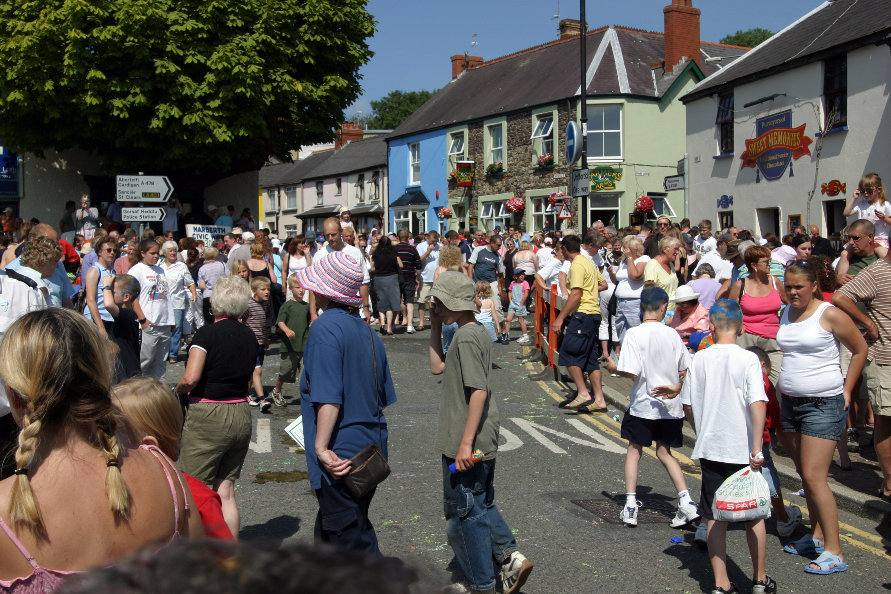 Narberth has a massive influx of visitors on carnival day, who come to watch the parade.